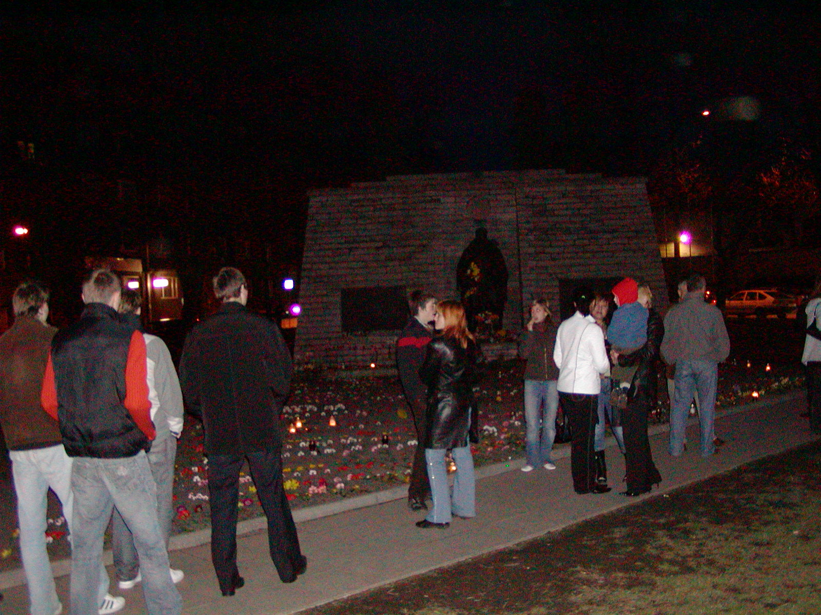 Protest against the demolition of the Bronze Soldier of Tallinn, a World War II memoral commemorating the libration of Estonia from Nazism by Soviet forces.